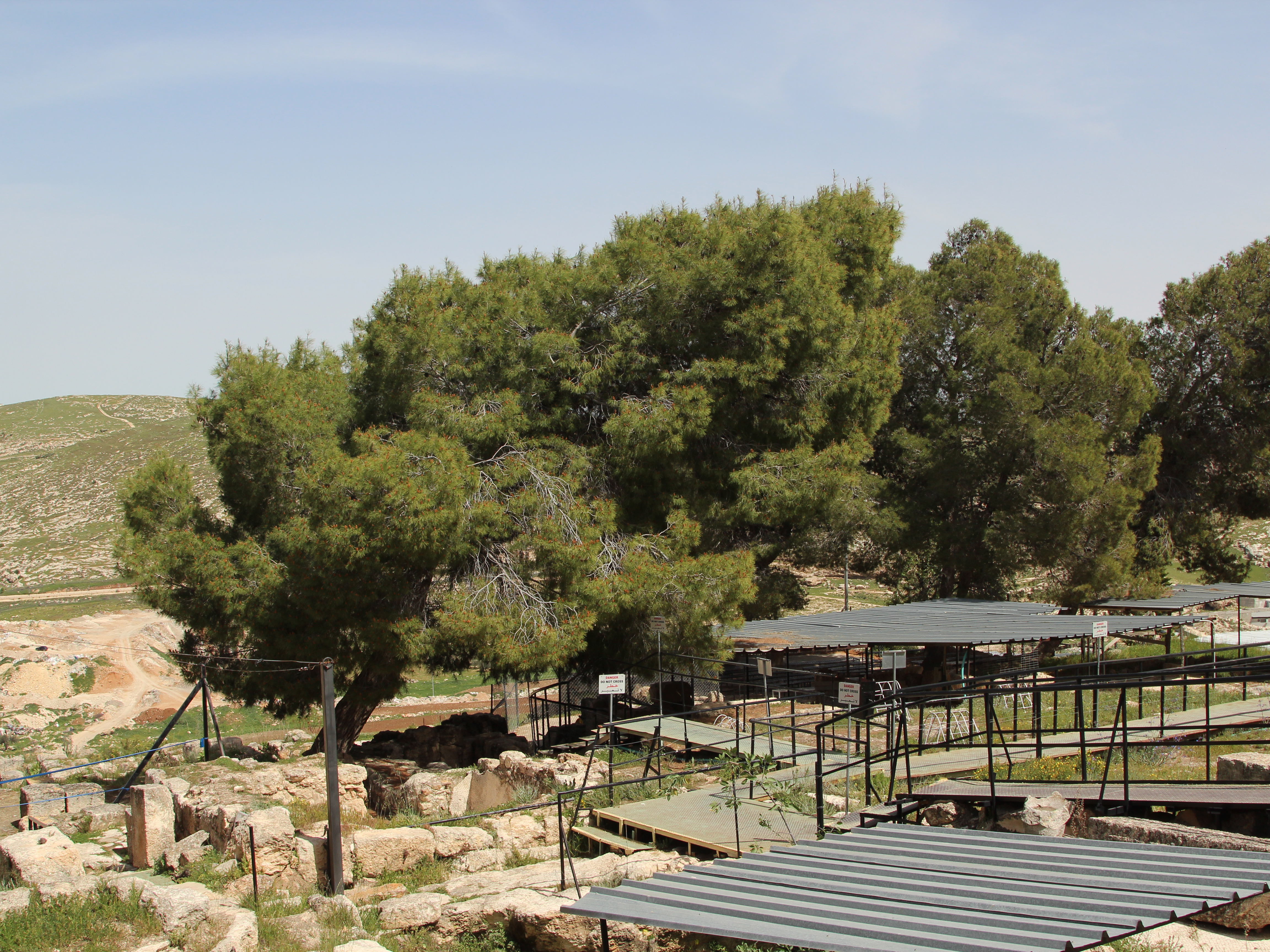 Byzantine chapel excavations in Shepherds Field Chapel garden